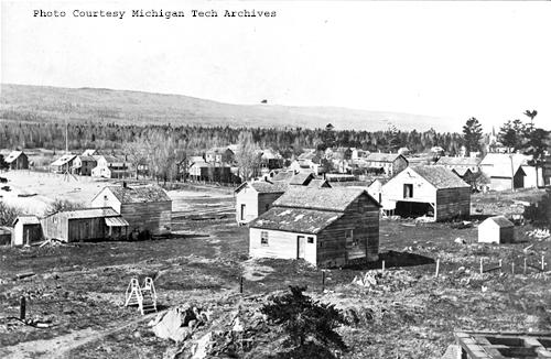 An early photo of Eagle Harbor, MI.